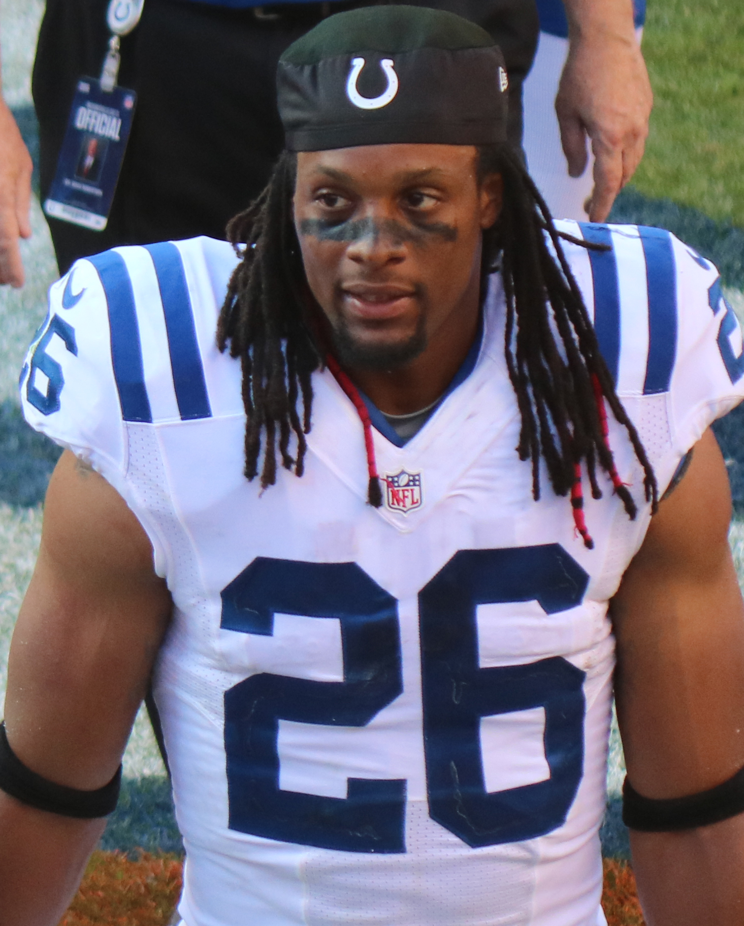 Clayton Geathers, a player on the National Football League.